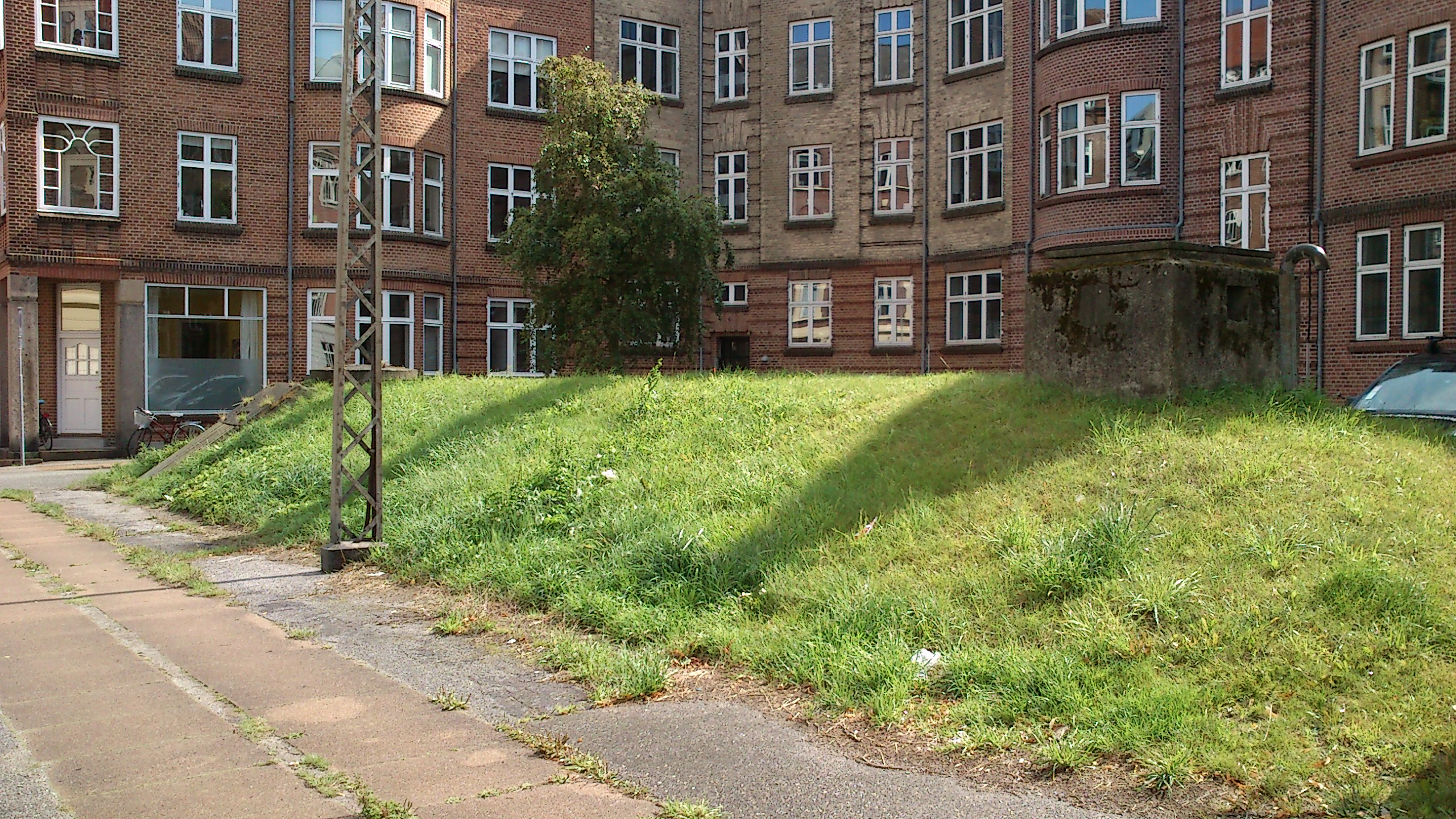 A concrete civil emergency shelter from WW II at Frederiksbjerg. Also referred to as "bunkers" in every-day conversation.